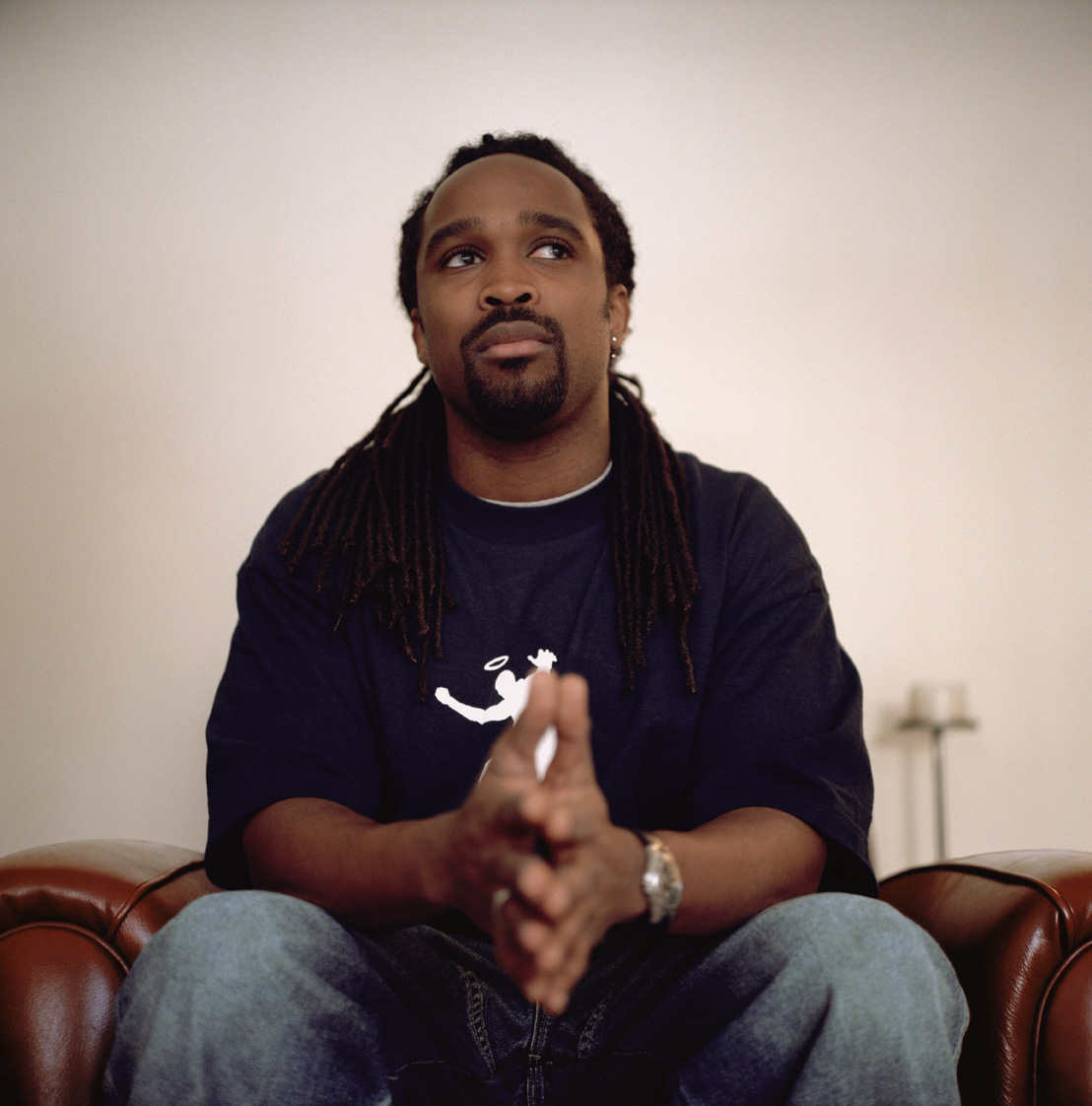 Dj Spinna at home in NYC